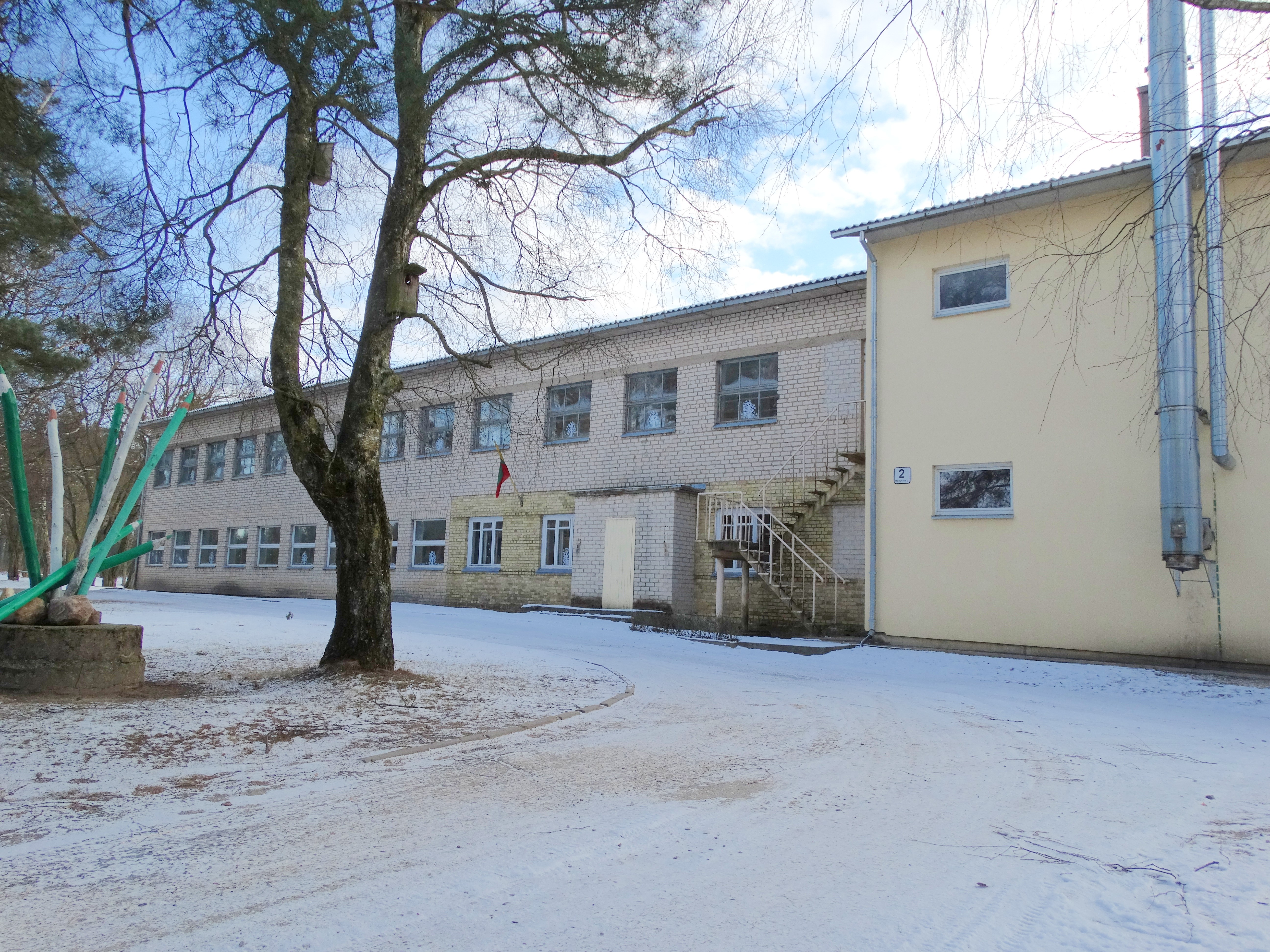 Basic school, Šukioniai, Pakruojis district, Lithuania